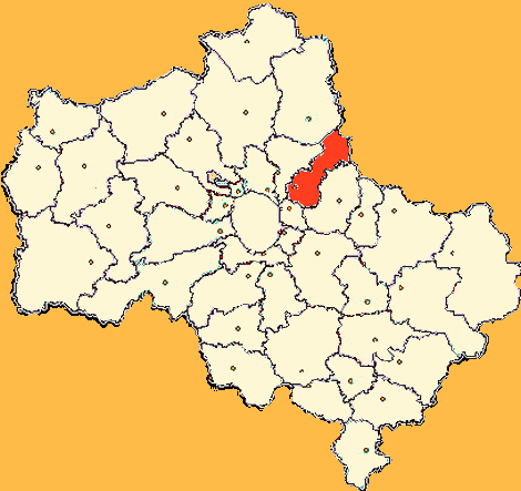 Moscow Region map by Al Silonov